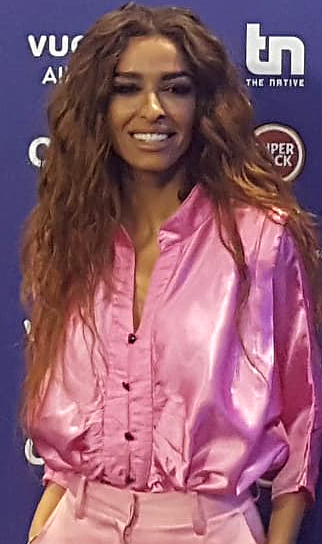 Greek singer Eleni Foureira on May 2018